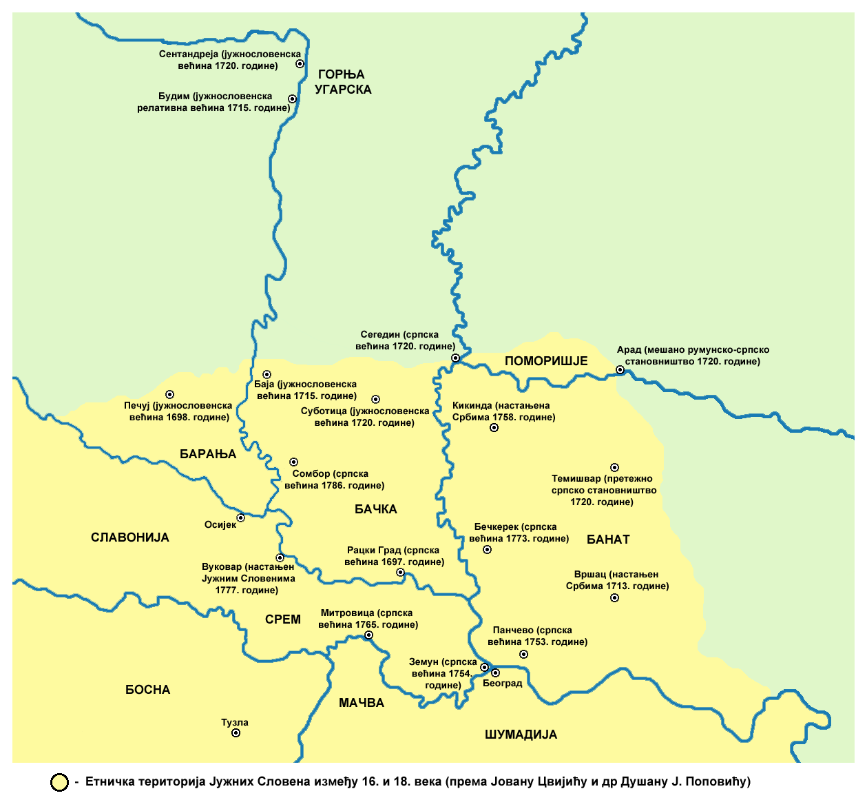 historical map of South Slavs in Vojvodina, 16th-18th century - Serbian language version